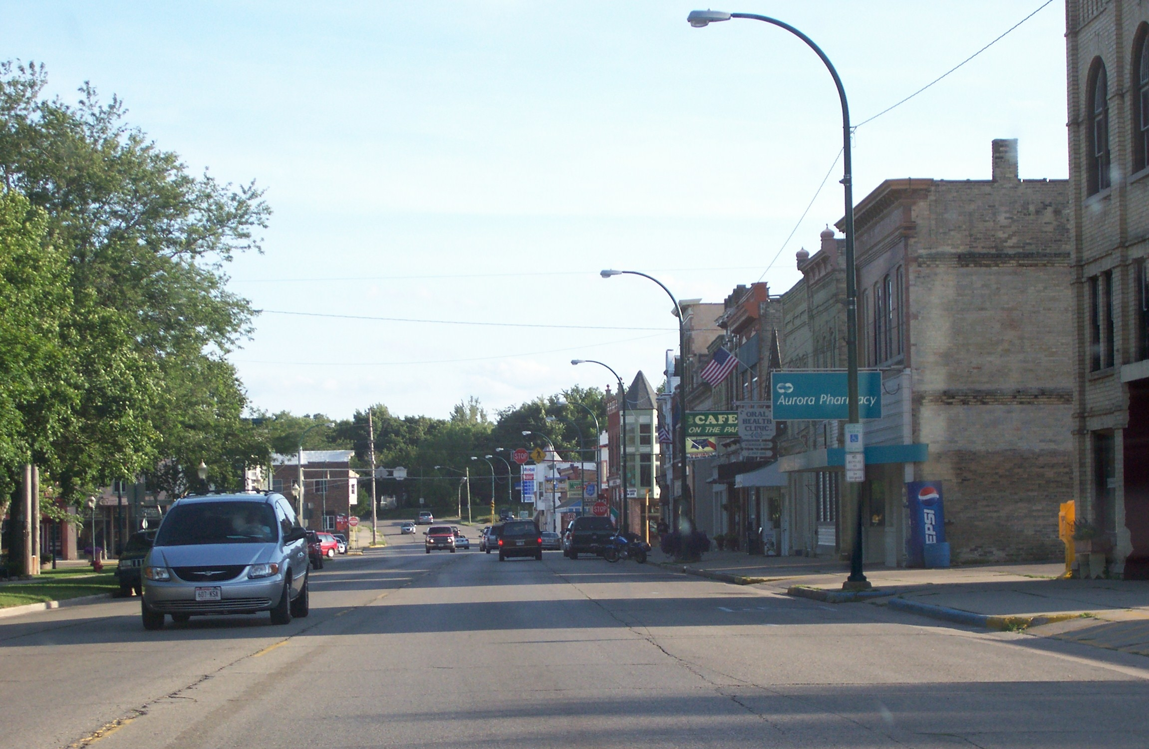 Looking south at the west town square in downtown LakeMills, Wisconsin, USA while traveling on Wisconsin Highway 89.